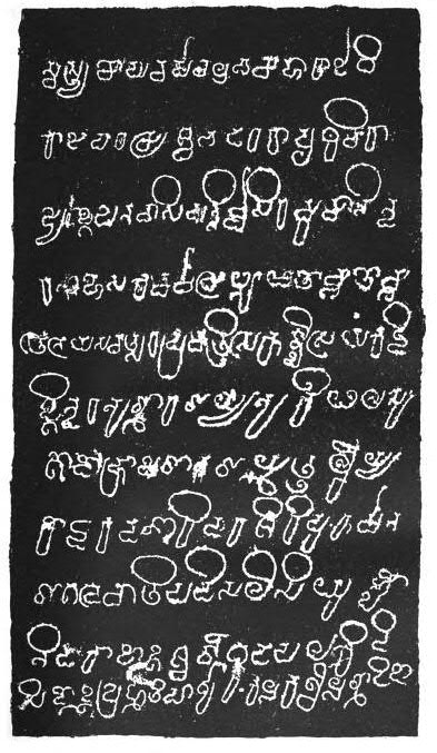 Kumsi is a village in Soraba Taluq of Shimoga district in the Karnataka state, India. The inscription was found at the Virabhadra temple. Ref: List of inscriptions in Chronological order (pages 1-8); Part II, Text of inscriptions in Roman characters, inscription Sb. 85, page 24; Translation of inscriptions, Sb. 85 on page 13